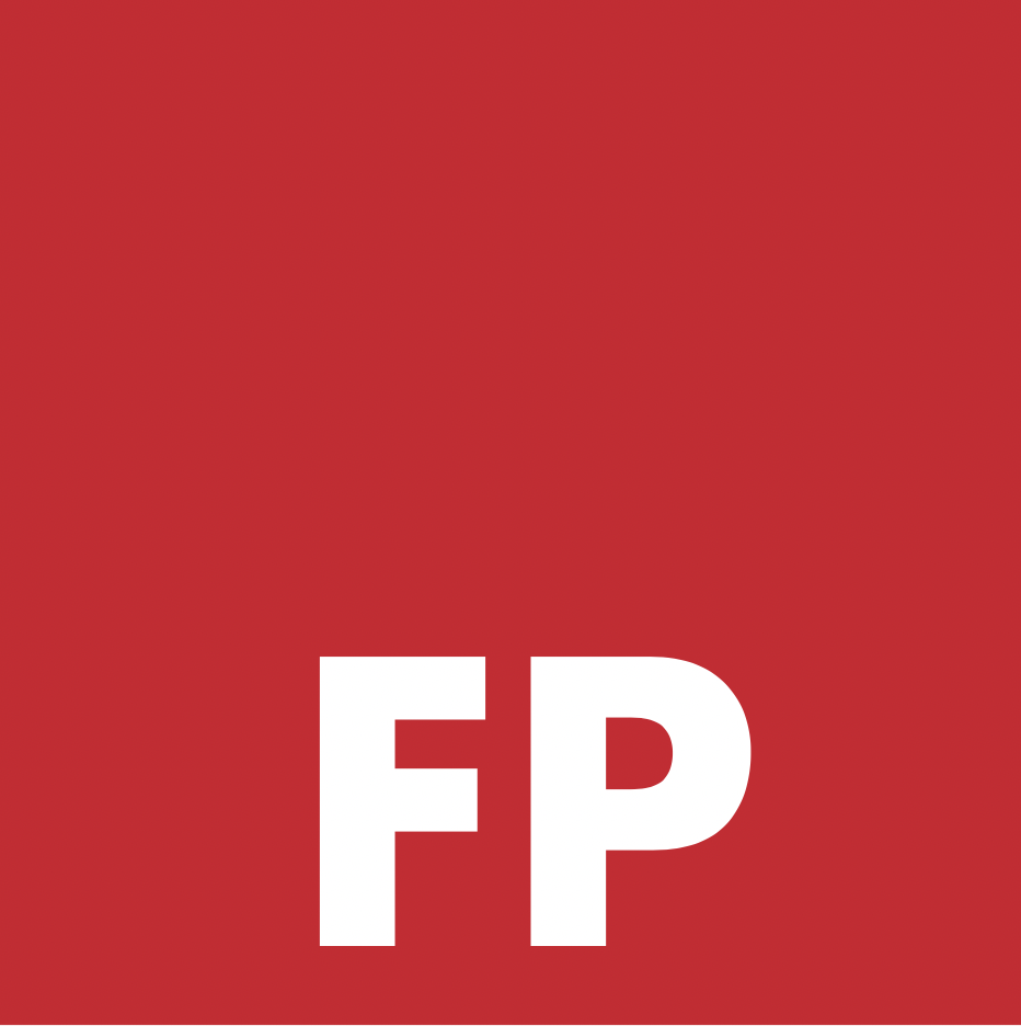 Logo of FP